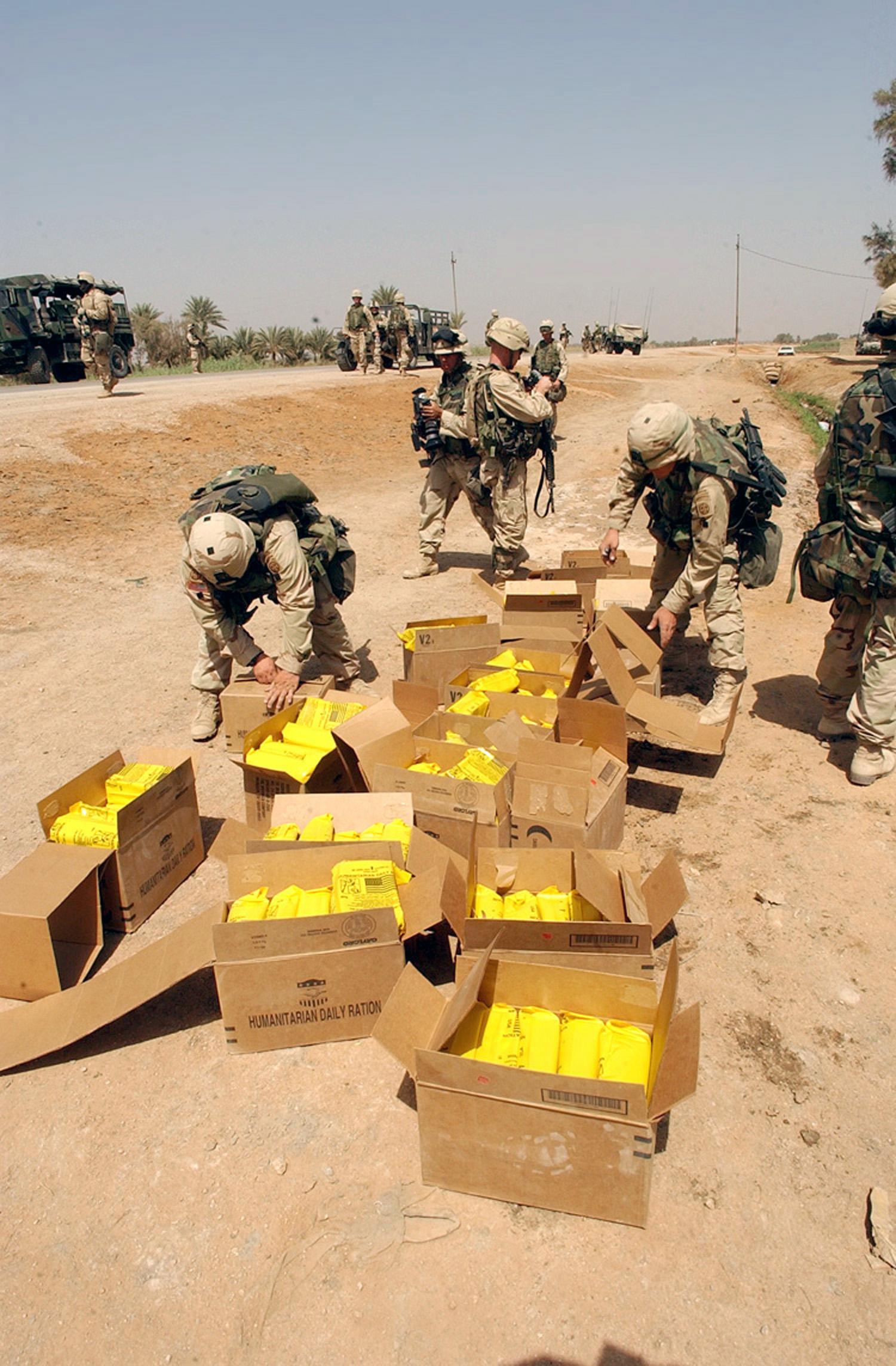 Central Command Area of Responsibility (Apr. 5, 2003) -- Paratroopers assigned to the 82nd Airborne Division open boxes of humanitarian rations for distribution to Iraqi citizens in central Iraq. The 82nd Airborne Division is deployed conducting both combat and humanitarian aid missions in support of Operation Iraqi Freedom. Operation Iraqi Freedom is the multi-national coalition effort to liberate the Iraqi people, eliminate Iraq's weapons of mass destruction, and end the regime of Saddam Hussein. U.S. Army photo by Staff Sgt. Eric Foltz. (RELEASED)